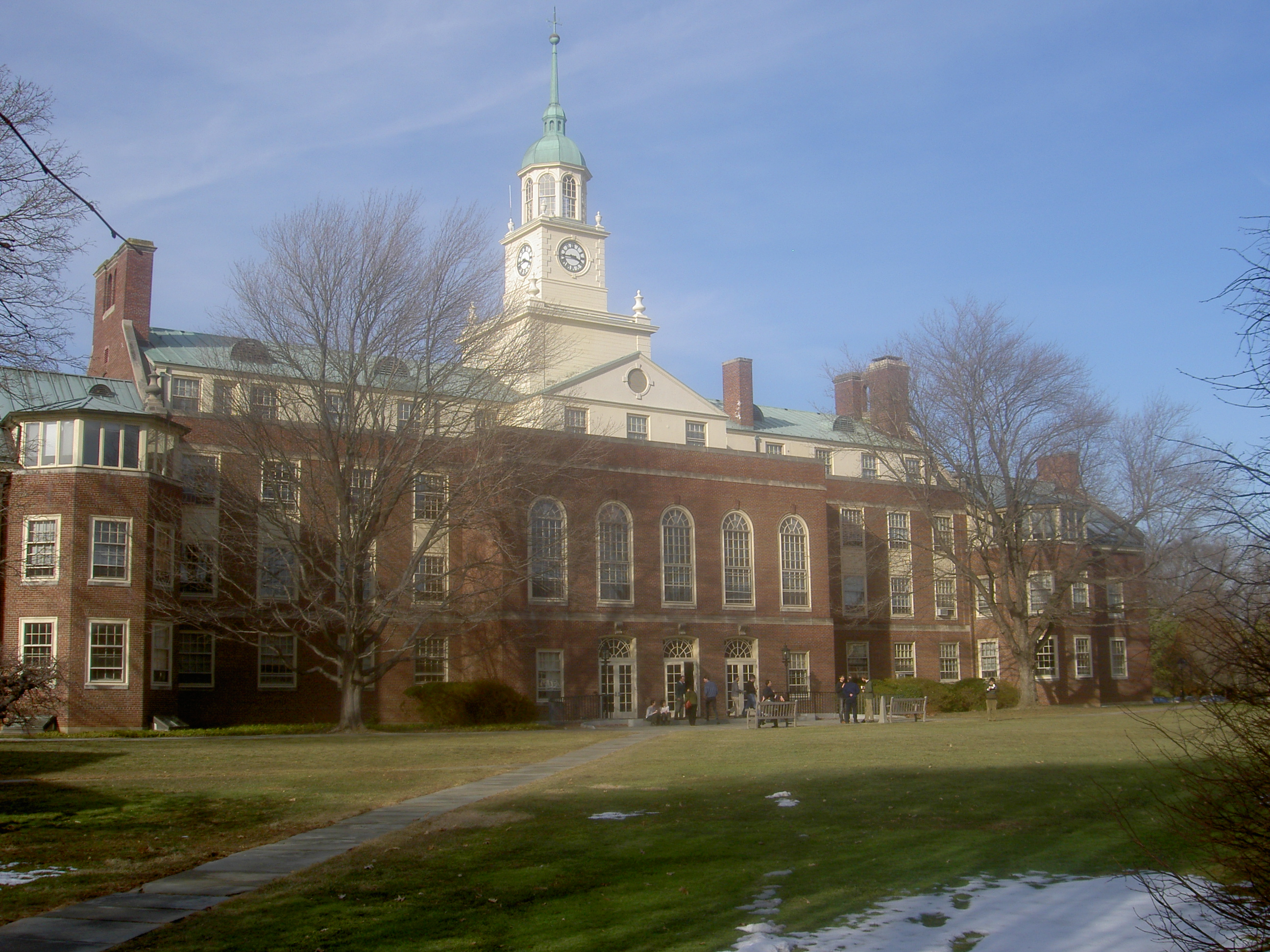 Back side of Fuld Hall. Institute for Advanced Studies in Princeton, New Jersey, USA.